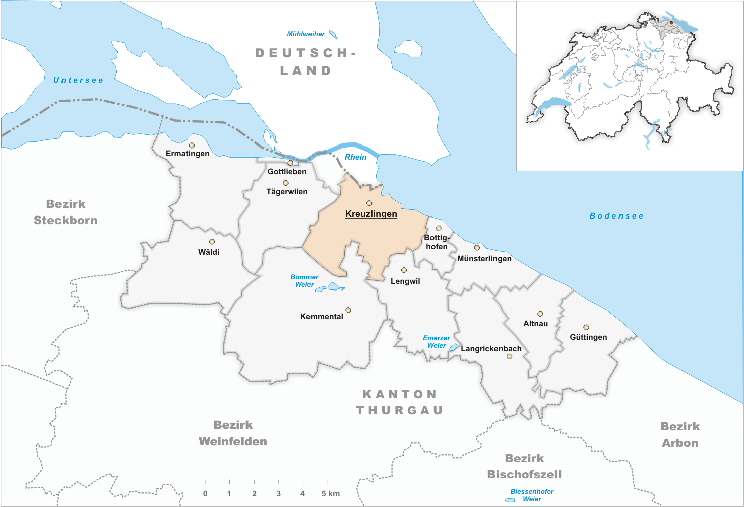 Municipality Kreuzlingen